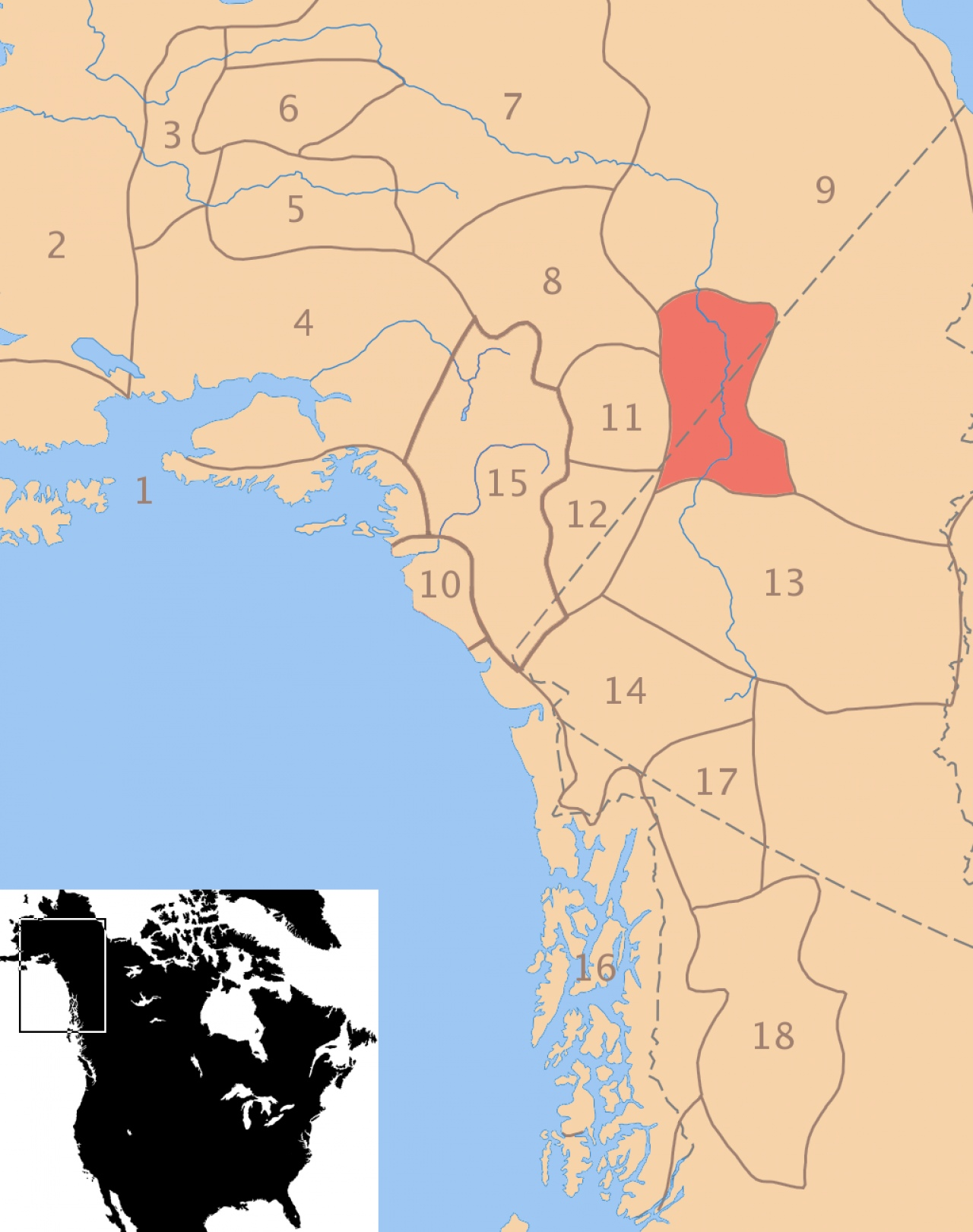 Pre-contact distribution of Hän speakers Contents 1 Summary 2 Sources 3 Licensing 4 Original upload log Summary This map shows the distribution of Hän speakers before European-contact. Present-day country and state boundaries are provided for reference (with broken gray dashes). Neighboring peoples are delineated with brown boundaries and are identified by number as follows: Pacific Yupik Central Alaskan Yupik Deg Xinag Denaʼina Upper Kuskokwim Holikachuk Koyukon Tanana (a.k.a. Lower Tanana, Minto) Gwichʼin Hän Tanacross (a.k.a. Nabesna, Transitional Tanana) Upper Tanana (a.k.a. Nabesna) Northern Tutchone Southern Tutchone Ahtna Tlingit Tagish Tahltan Sources Goddard, Ives. (1996). Native languages and language families of North America [Map]. In I. Goddard (Ed.), Handbook of North American Indians: Languages (Vol. 17). (W. C. Sturtevant, General Ed.) Washington, D. C.: Smithsonian Institution. ISBN 0-1604-8774-9. Goddard, Ives. (1999). Native languages and language families of North America (rev. and enlarged ed. with additions and corrections). [Map]. Lincoln, NE: University of Nebraska Press (Smithsonian Institute). (Updated version of the map in Goddard 1996). ISBN 0-8032-9271-6.